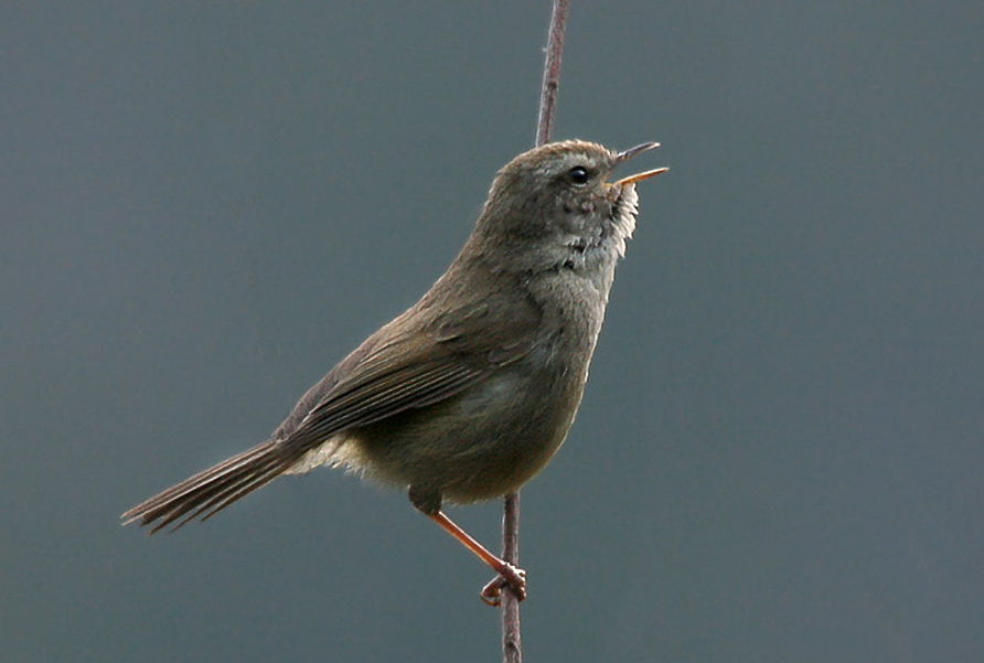 Took out the branch that was obscuring the bird and cropped tightly.